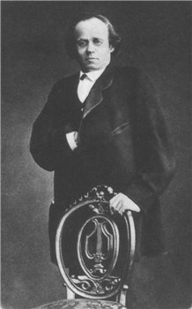 Vitaly Shulgin